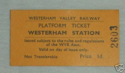 Platform Ticket issued by the Westerham Valley Railway Association in 1961